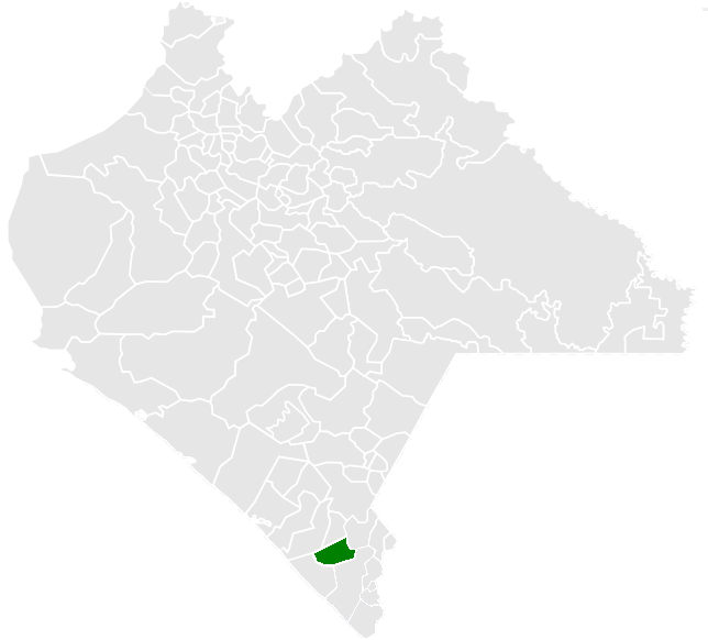 Map of the Municipalty of Huehuetán in the State of Chiapas, México.